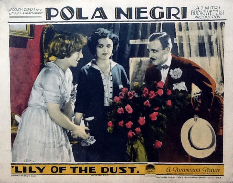 Lobby card for the American drama film Lily of the Dust (1924) with Jeanette Daudet, Pola Negri, and Raymond Griffith. This is the only film Daudet is listed as being in its cast.